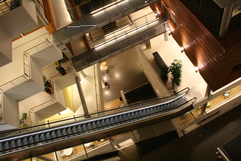 BI Norwegian School of Management, Campus Nydalen, Oslo, Norway.